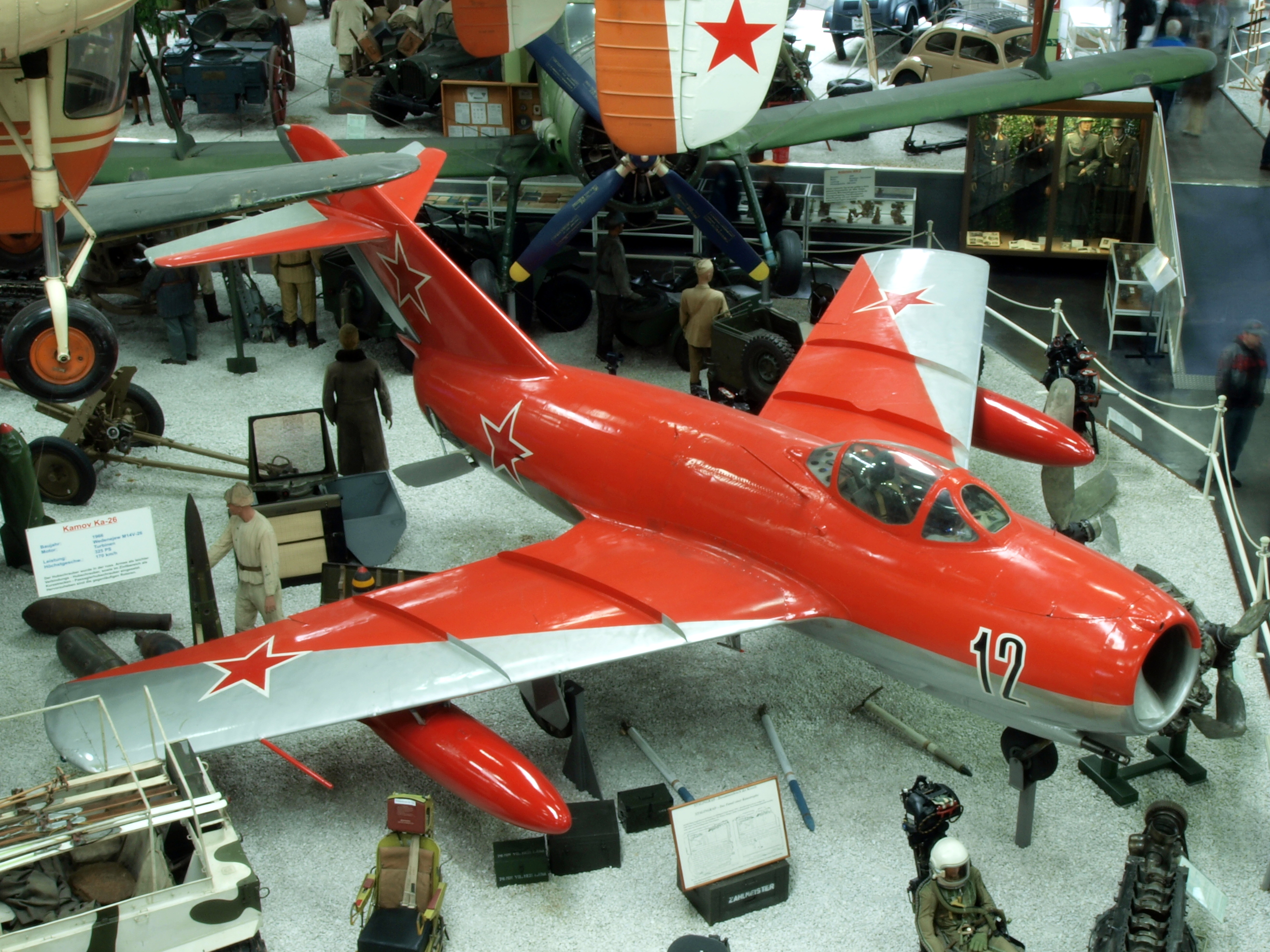 Photographed at the Auto & Technic museum Sinsheim.